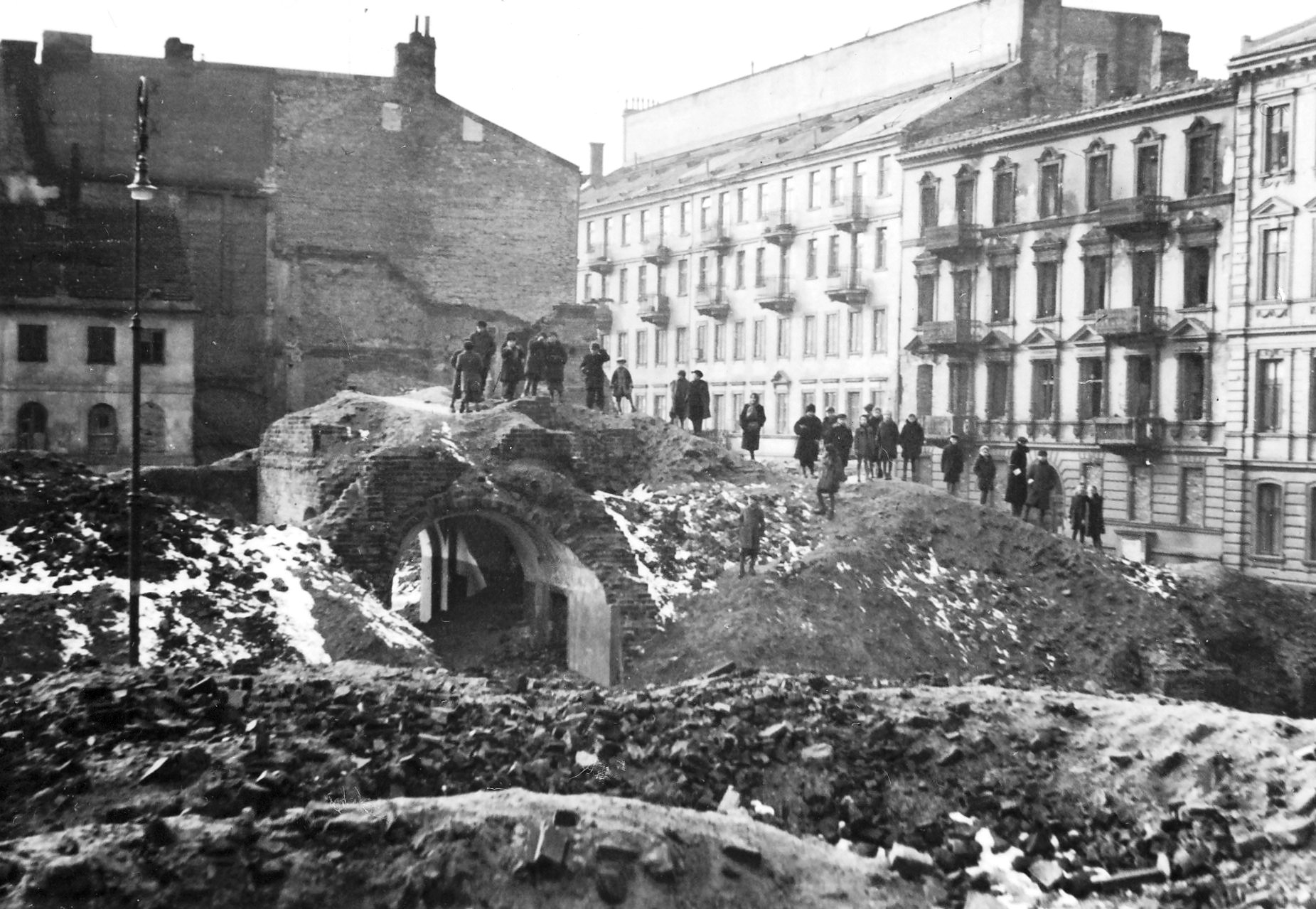 Ruins of townhouses between Sienna and Śliska Streets viewed from Wielka Street in Warsaw during WWII. Well preserved building, in the center was standing on Śliska 6/8 Street. During the war this neighborhood belonged to Warsaw Ghetto and after the war it become part of Defilad Square. Couple people in the photograph have arm bands which are most likely star-of-David bands worn by Jews in the getto before Getto Uprising in 1943.